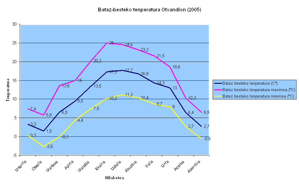 Maximun and minimum temperatures chart for 2005 in Otxandio, Bizkaia, Basque Country.